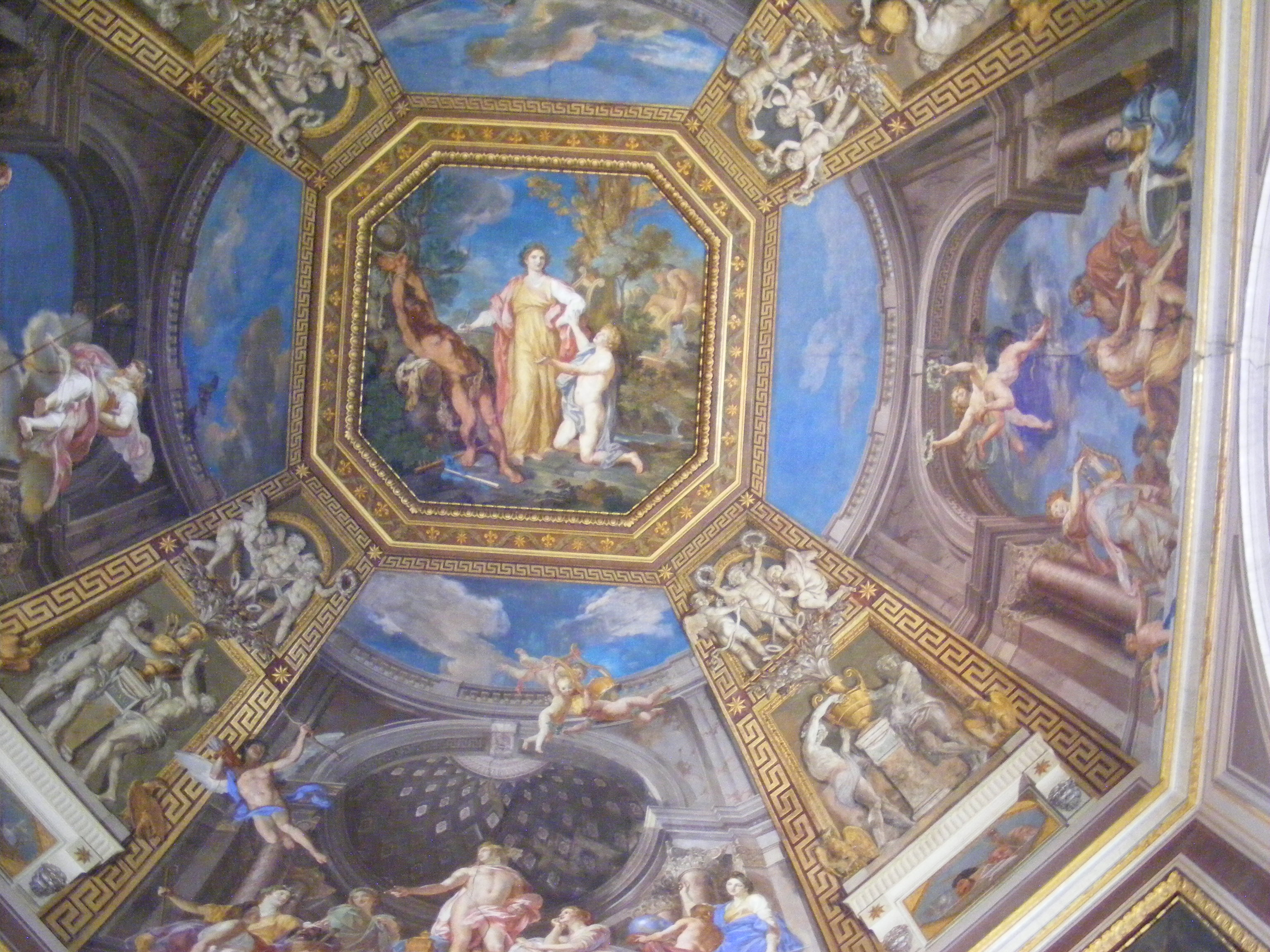 Ceiling of the Sala delle Muse (Vatican Museums). Apollo and the Muses and related stories.